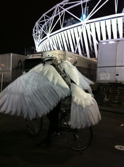 Dove Bike waits outside the Opening Ceremony of the London 2012 Olympic Games